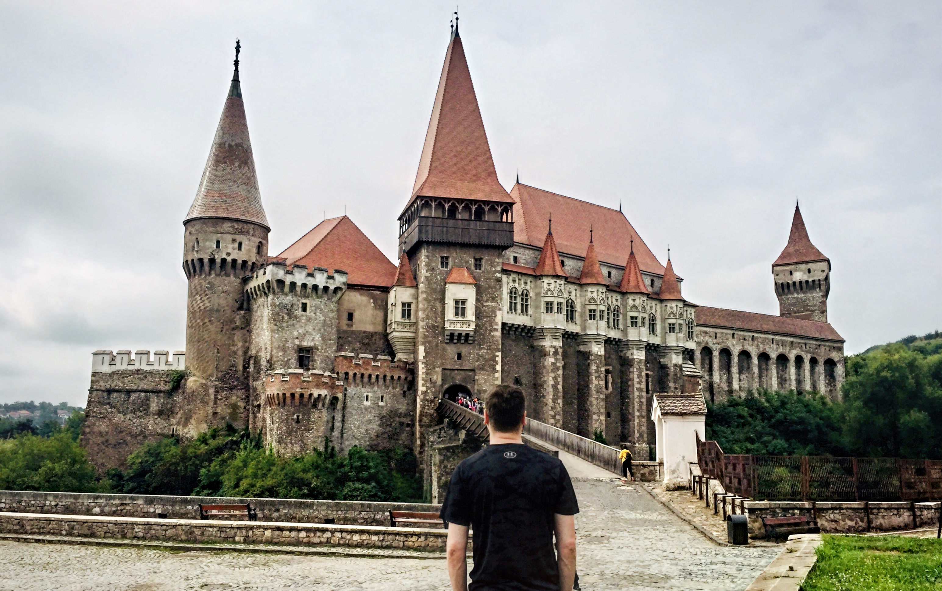 View of Hunedoara Castle from Entrance.png